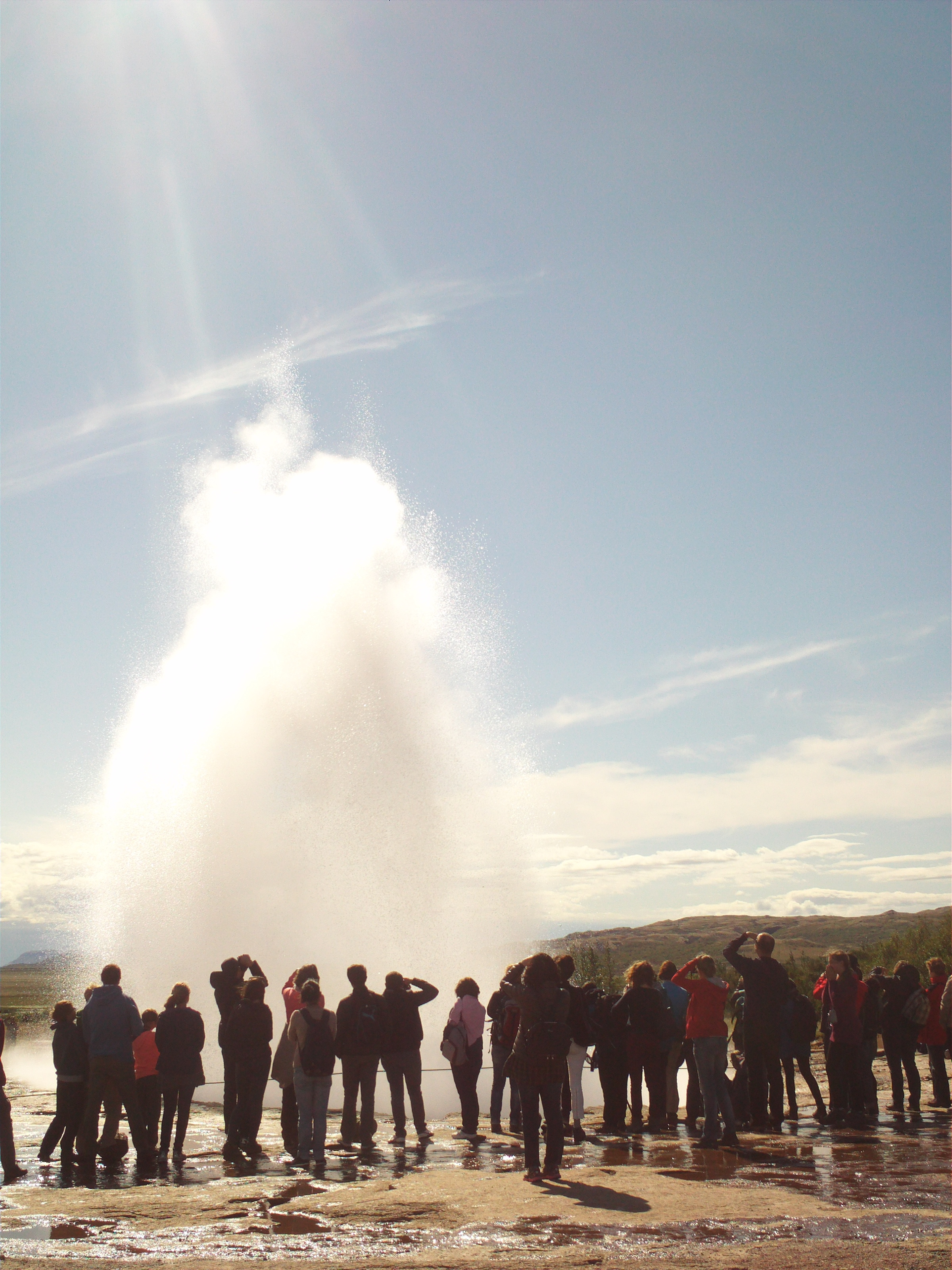 Eruption of Strokkur, the most popular geyser in the Geysir Geothermal Field. This geyser erupts every five minutes or so.